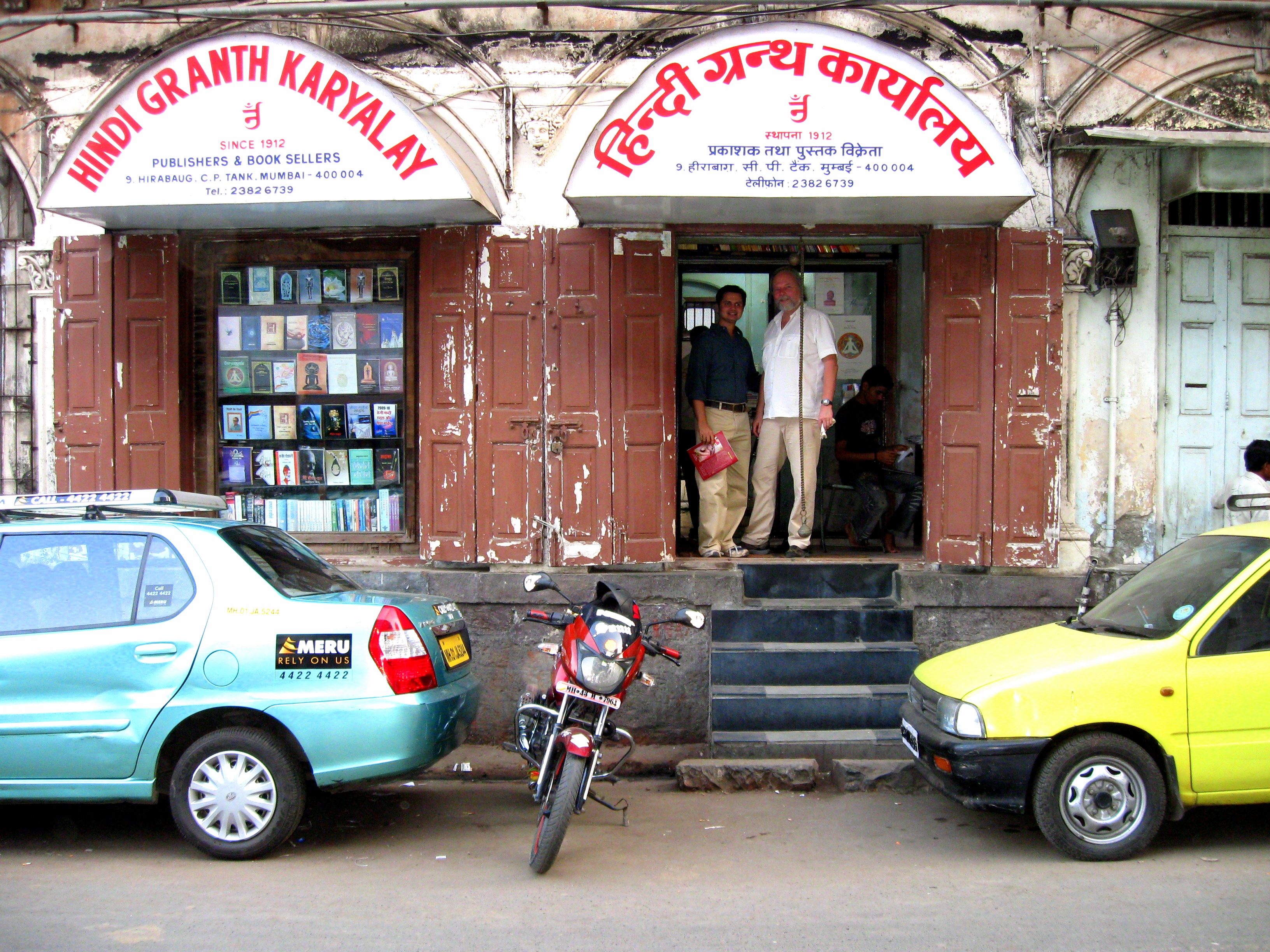 Photograph of the office and bookstore of Hindi Granth Karyalay, Publishers since 1912 of books on Jainism and Indology, at C.P. Tank, Hira Baug, Mumbai 400004, India. It was founded by the famous Jain scholar Pandit Nathuram Premi and is currently managed by his grandson, Yashodhar Modi and great-grandson Manish Modi. Seen standing are Manish Modi with the German scholar of Jainism, Mr. Hermann Kuhn.